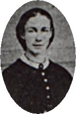 Mary Caswell, daughter of Burr Caswell